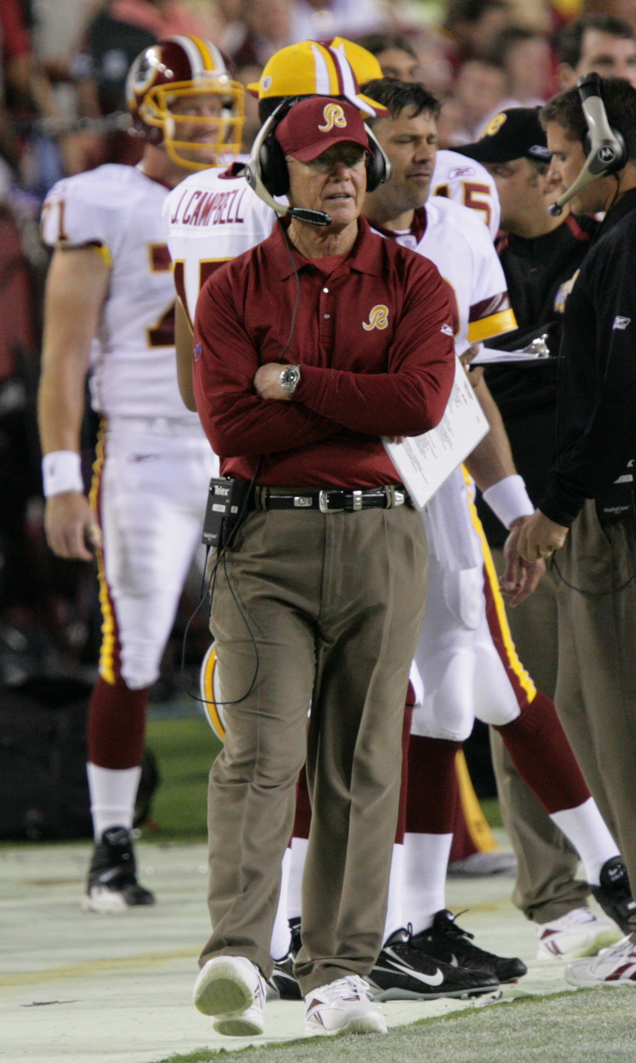 Head Coach Joe Gibbs, who coached the Redskins from 1981-1992 and then again from 2004-2007